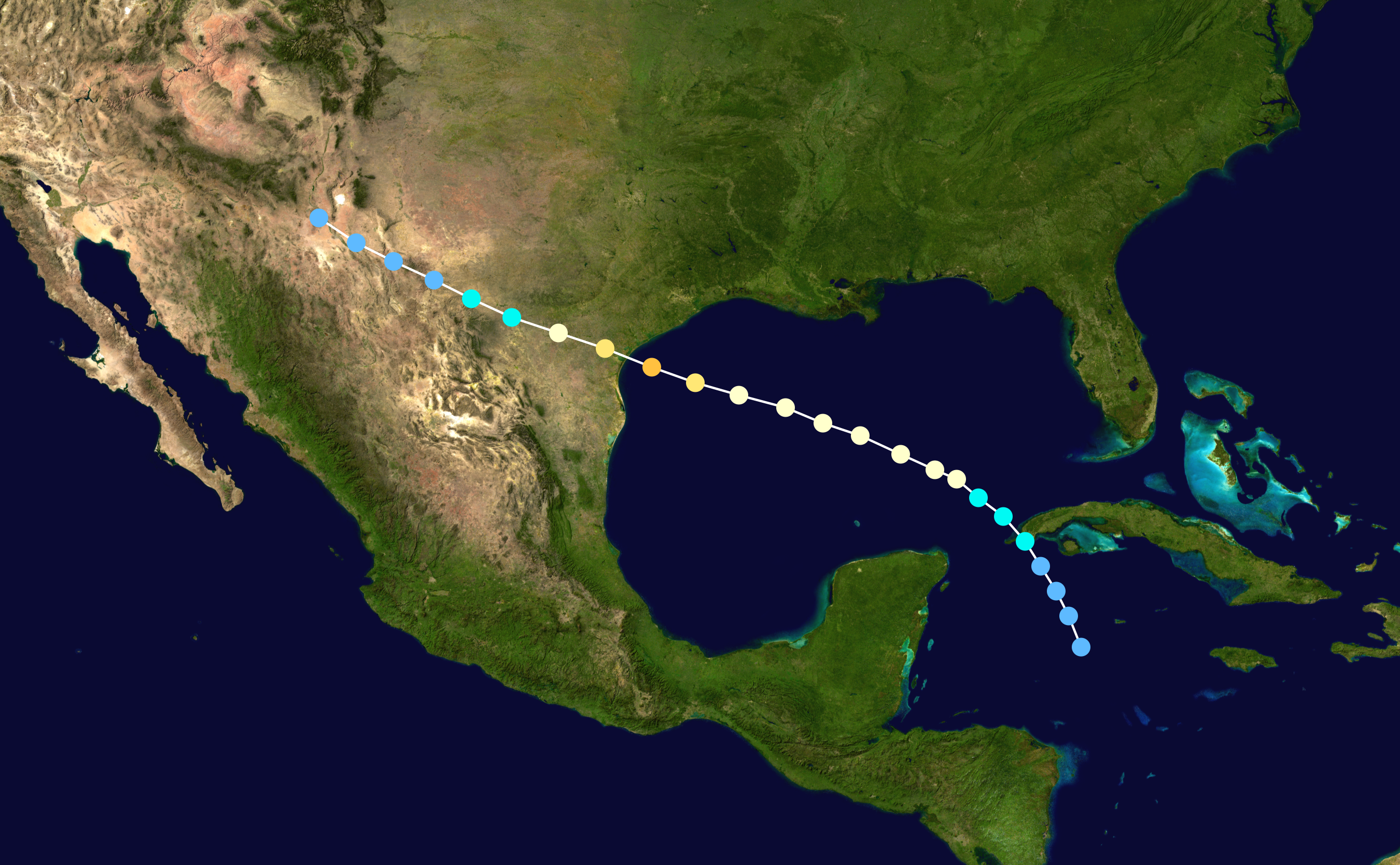 Hurricane Celia (1970) track. Uses the color scheme from the Saffir-Simpson Hurricane Scale.